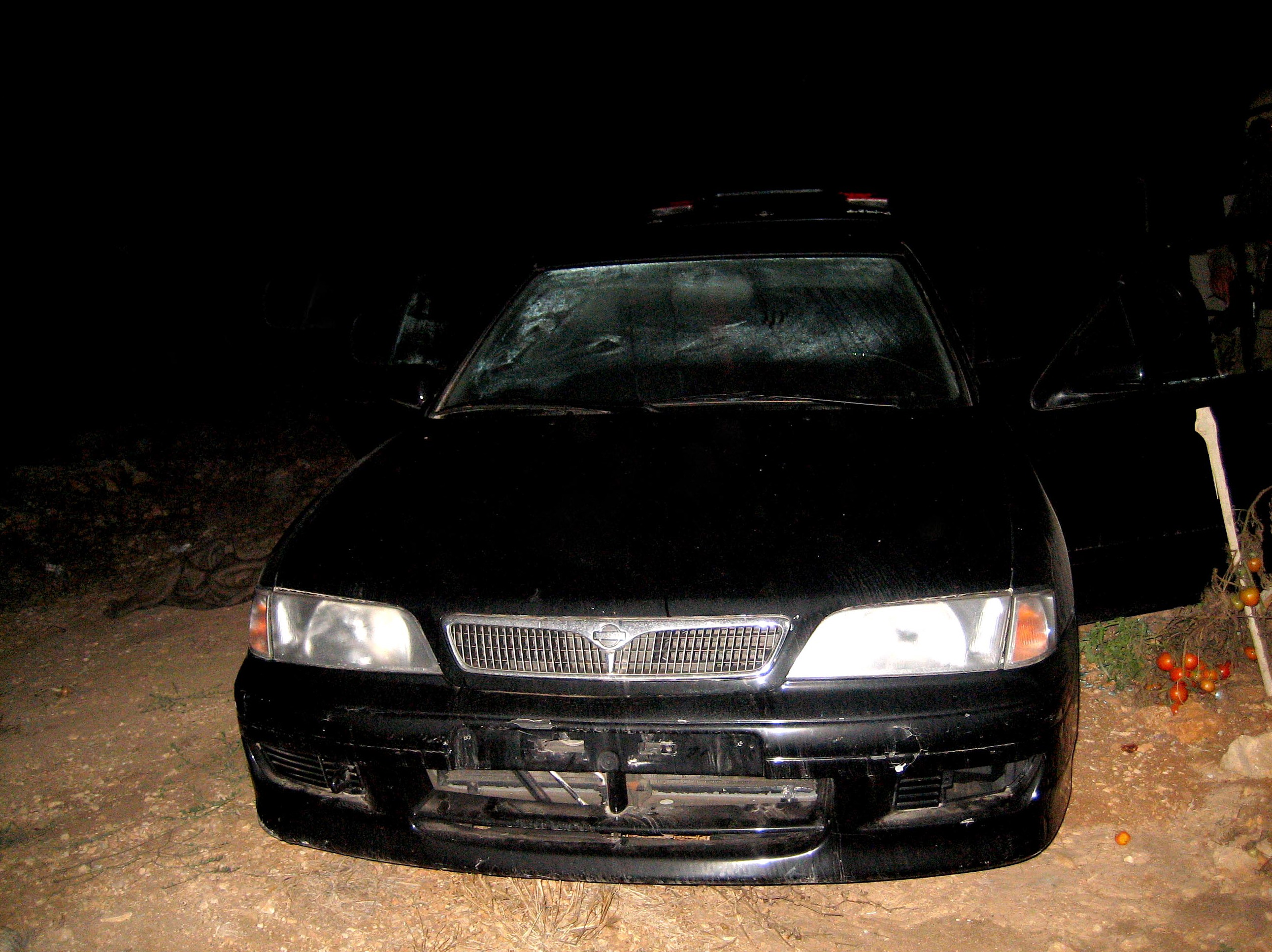 August 8, 2006 A car filled with Sager missiles, captured by IDF forces in southern Lebanon.